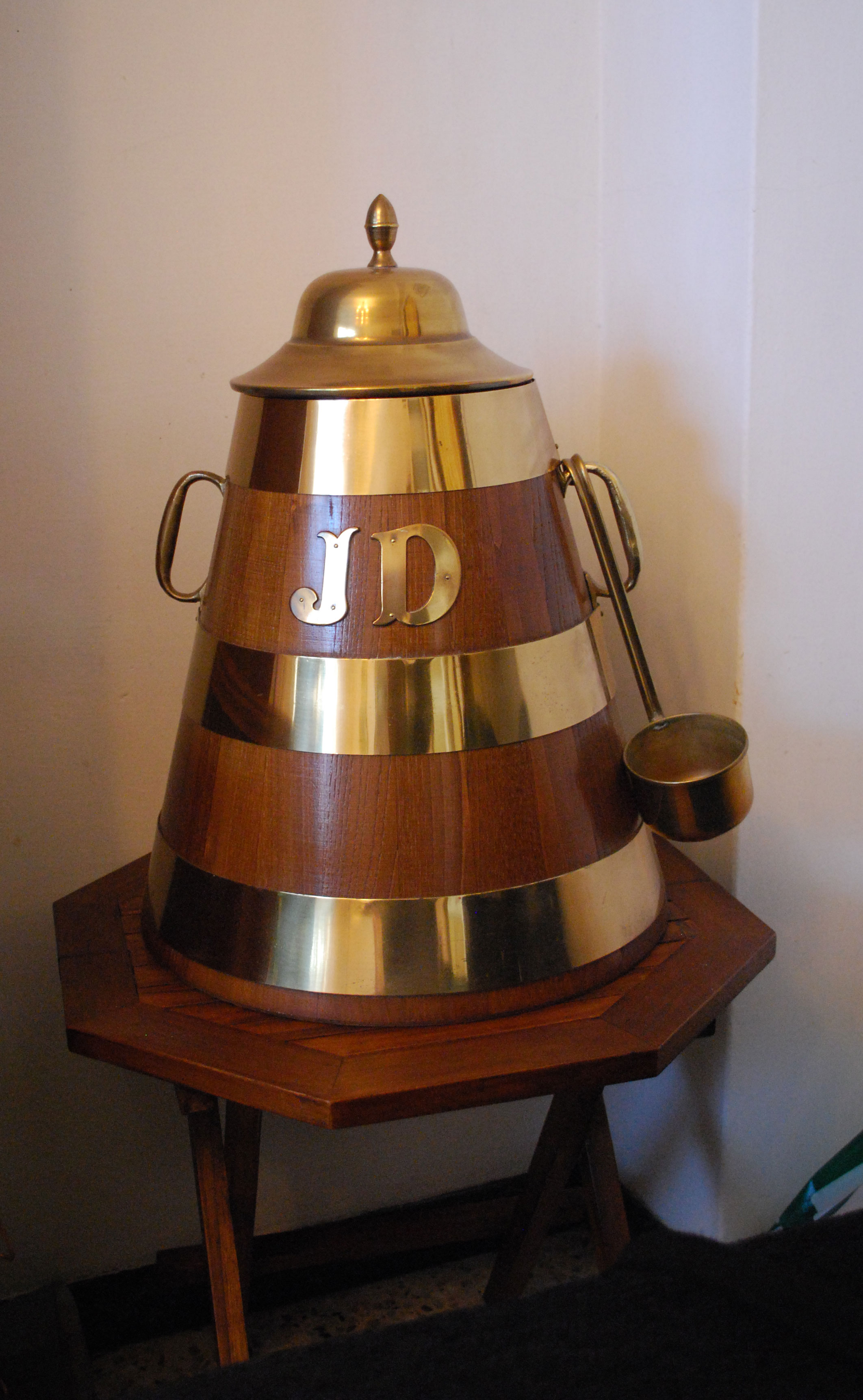 Sella (decorative copy), ancient vessel trococonico to transport water.